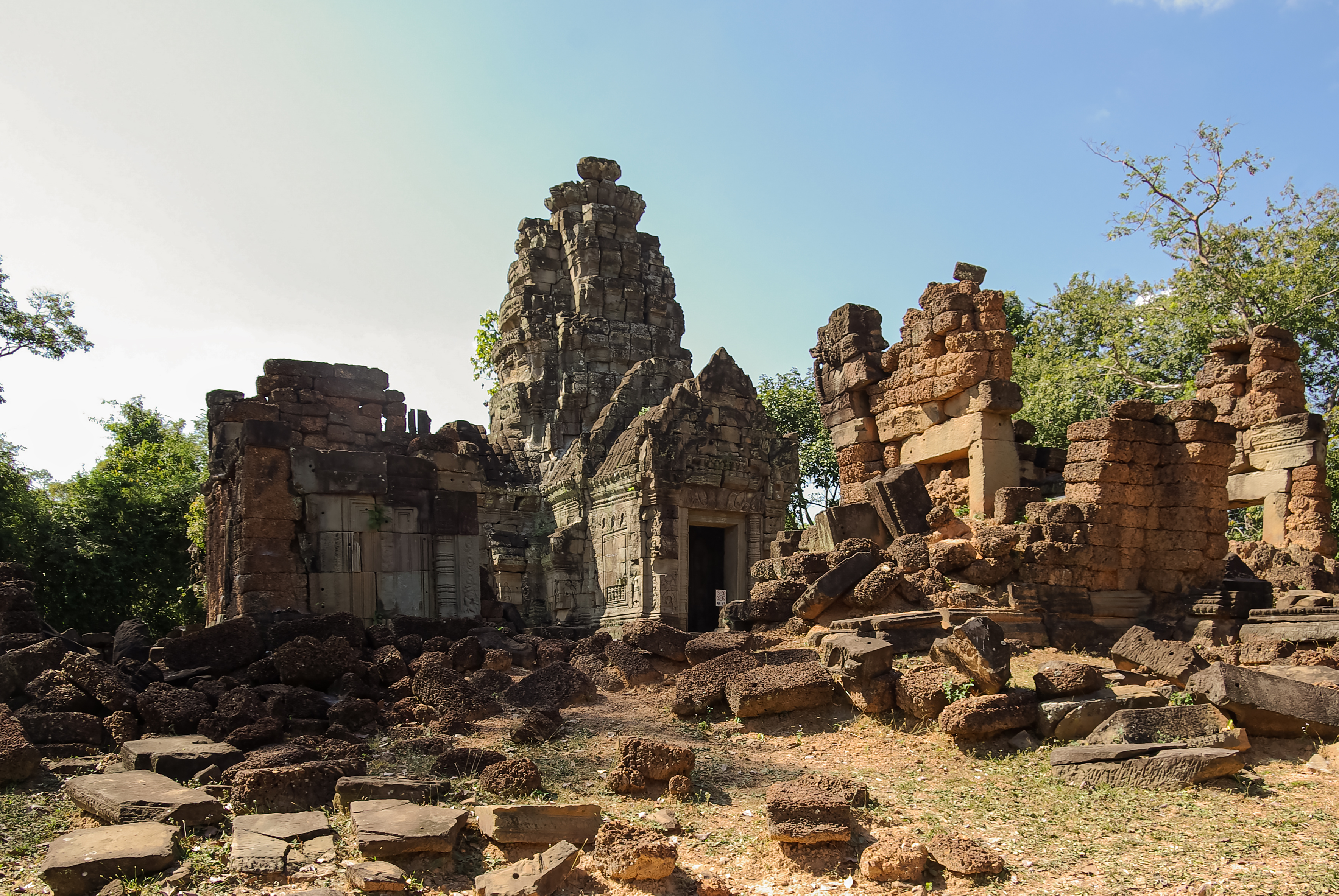 Angkorian Temple of Prasat Prei